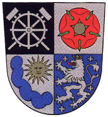 coat of arms of the Territory of the Saar Basin 1920